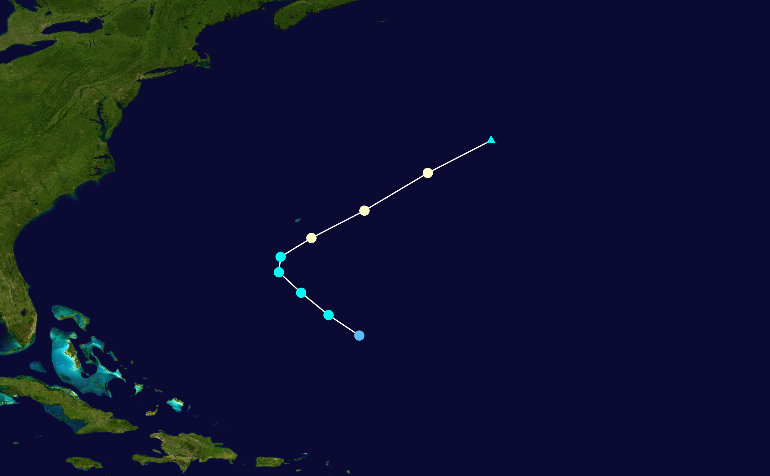 Track map of Hurricane Shary of the 2010 Atlantic hurricane season. The points show the location of the storm at 6-hour intervals. The colour represents the storm's maximum sustained wind speeds as classified in the Saffir–Simpson scale (see below), and the shape of the data points represent the nature of the storm, according to the legend below. Saffir–Simpson scale Tropical depression≤38 mph≤62 km/h Category 3111–129 mph178–208 km/h Tropical storm39–73 mph63–118 km/h Category 4130–156 mph209–251 km/h Category 174–95 mph119–153 km/h Category 5≥157 mph≥252 km/h Category 296–110 mph154–177 km/h Unknown Storm type Tropical cyclone Subtropical cyclone Extratropical cyclone / Remnant low / Tropical disturbance / Monsoon depression